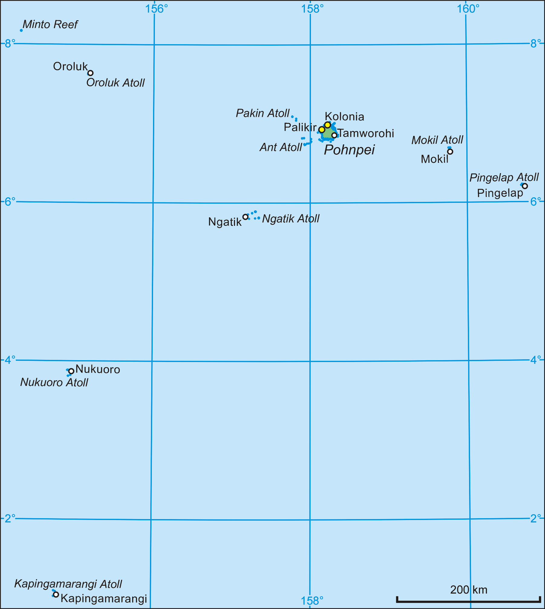 Map of Pohnpei State, Micronesia. Author: Aotearoa from Poland